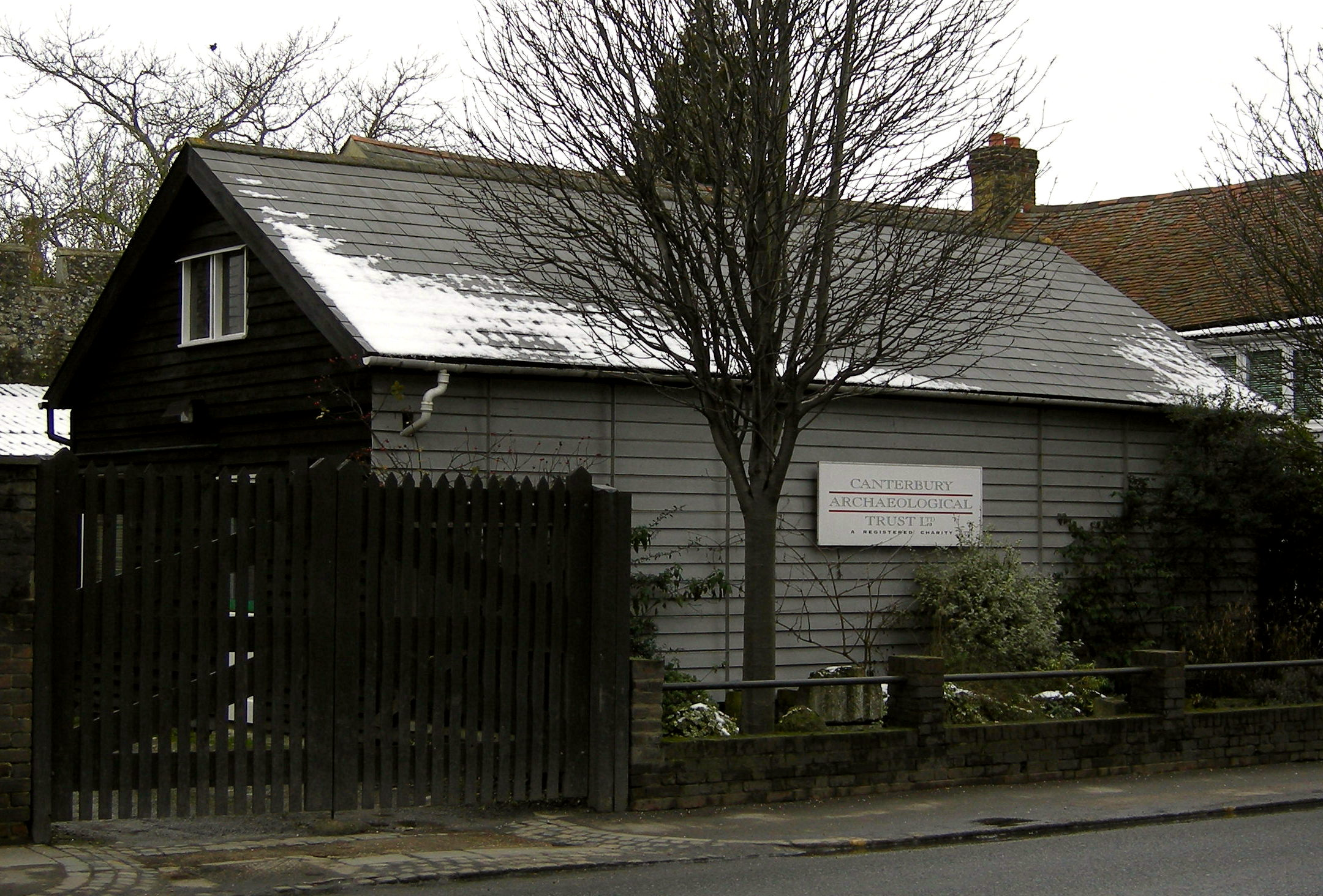 Canterbury Archaeological Trust (CAT) headquarters building in Broad Street, Canterbury, Kent, England.